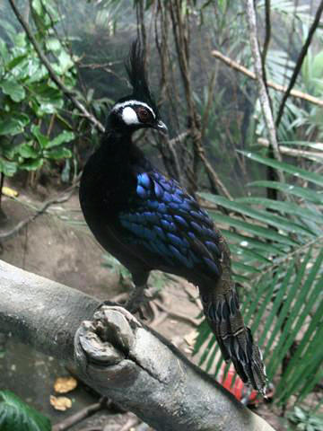 Description: Palawan Peacock Pheasant - Source: own work - Location: Bronx Zoo, New York - Author: self, User:Stavenn